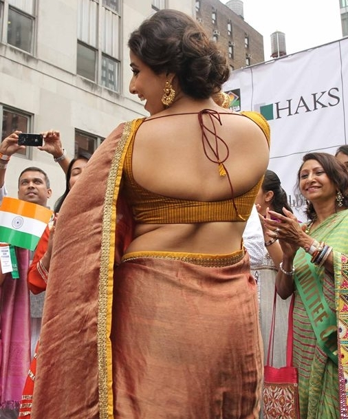 Vidya Balan at the India Day Parade:Corruption Racism and Bollywood Paraded in New York